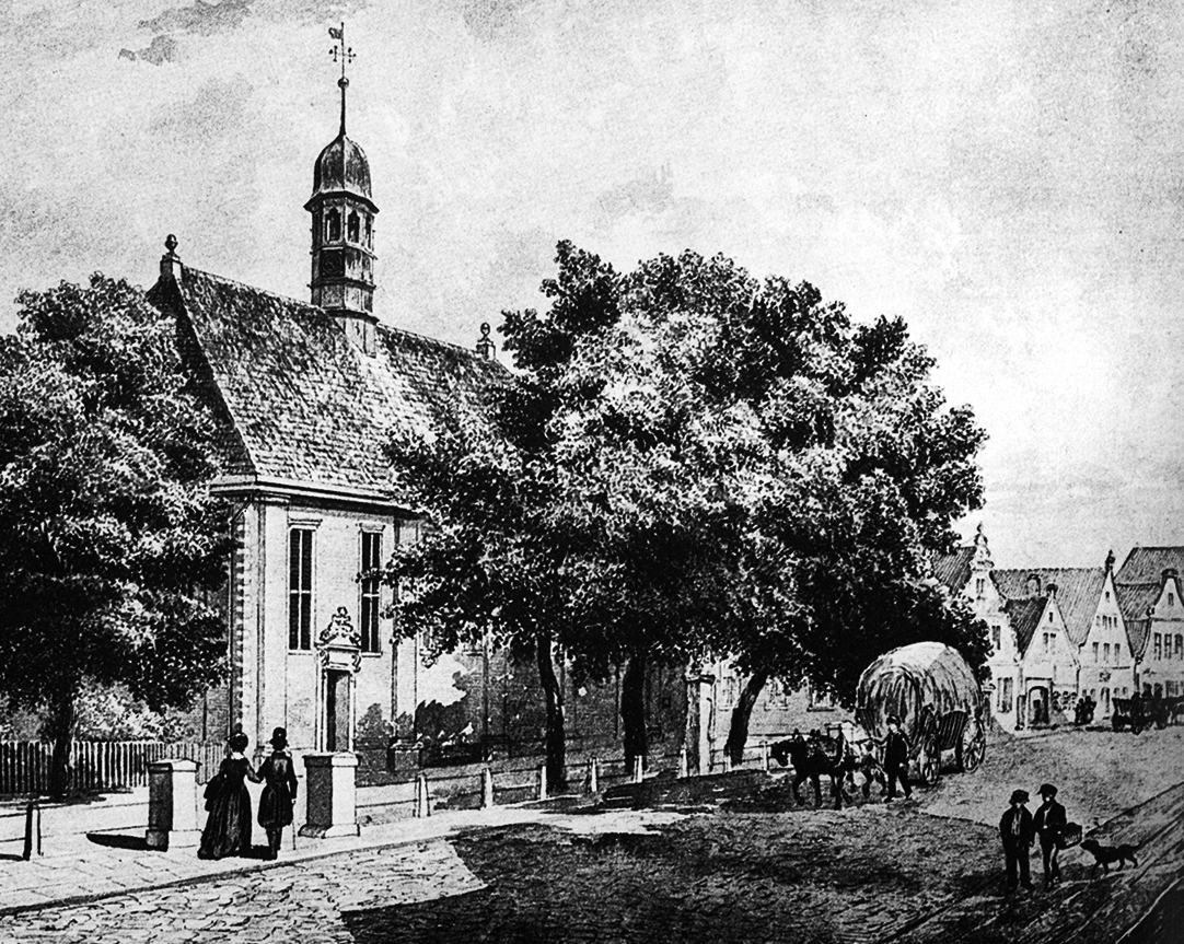 Lithograph by Christan Garbau from 1872, showing the former St. Pauli church in Bremen, Germany. Built in 1697–1682 the building was destroyed in an air raid on the 6th of octobre of 1944.